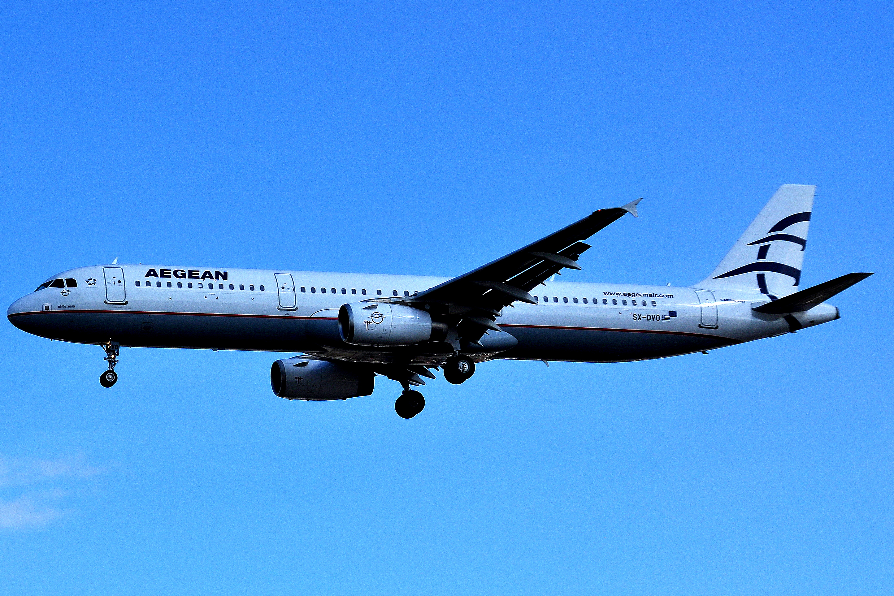 Airbus A321-232 - Aegean Airlines (SX-DVO)